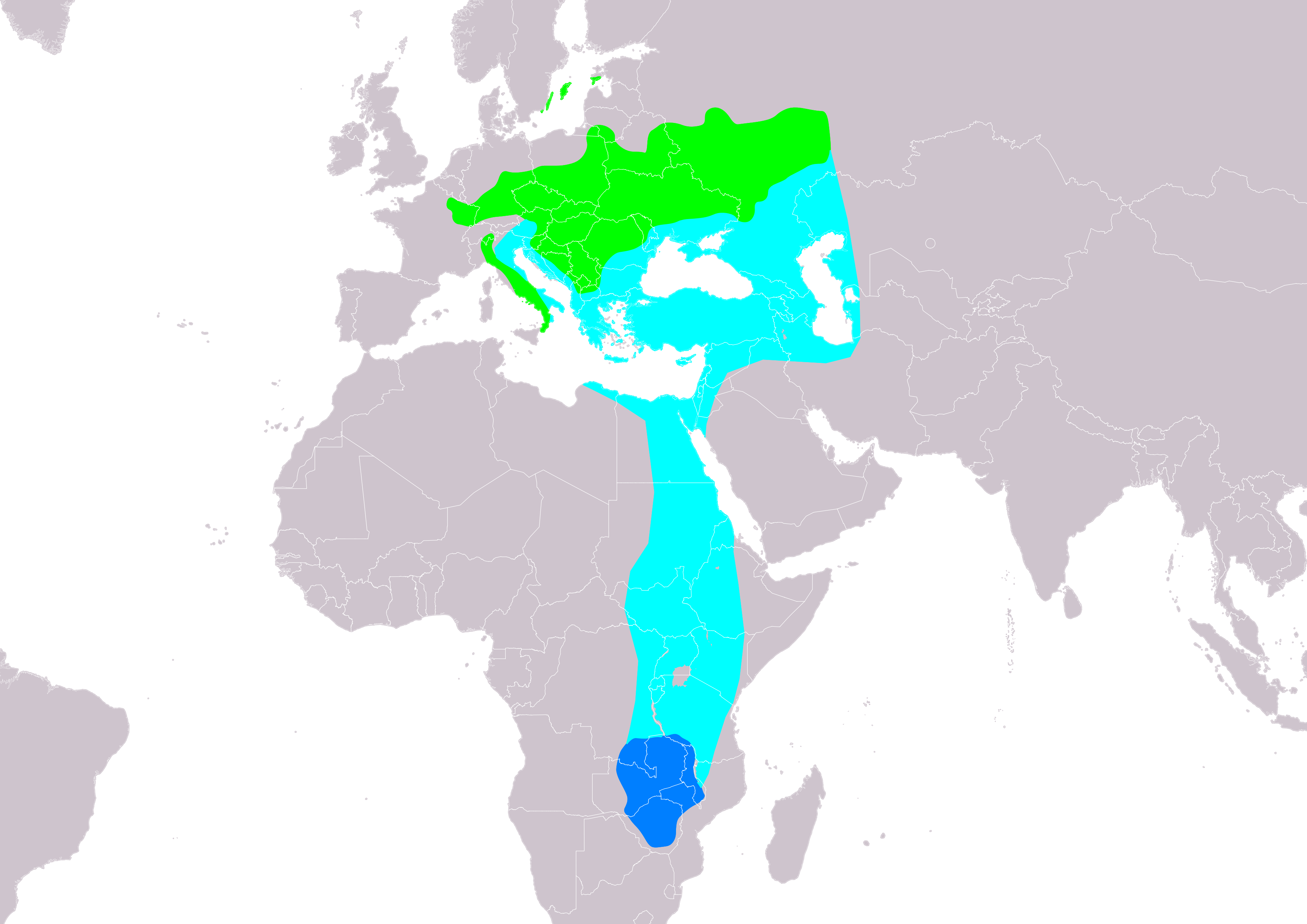 Distribution map of collared flycatcher (Ficedula albicollis) according to IUCN version 2019-3; key: Legend: Extant, breeding (#00FF00), Extant, passage (#00FFFF), Extant, non-breeding (#007FFF)